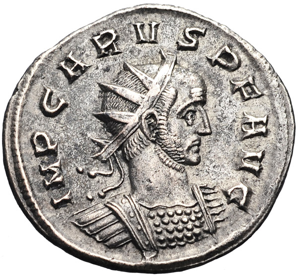 Antoninianus featuring emperor Carus